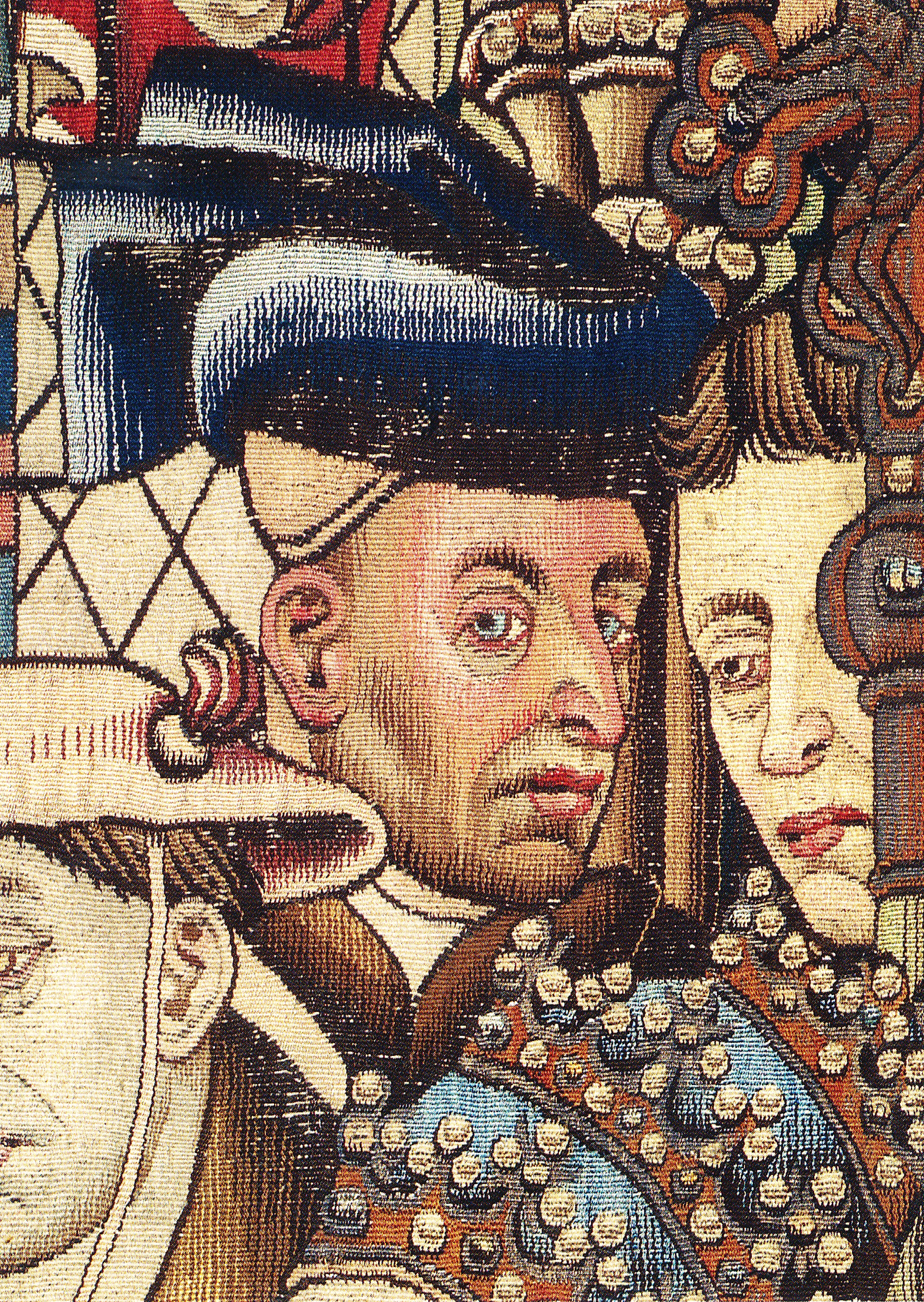 A detail from the The Justice of Trajan and Herkinbald tapestry, dating from around 1450, in the Historical Museum of Bern.